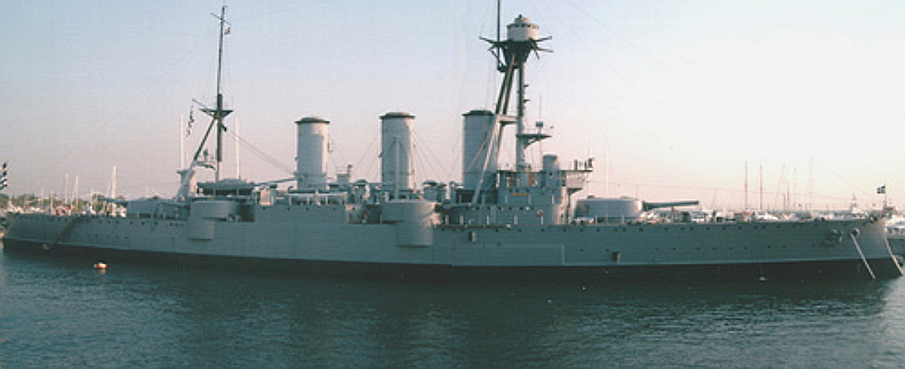 The greek armored cruiser Averof, now a museum ship at Trokandero Marina in Palaio Faliro, Athens